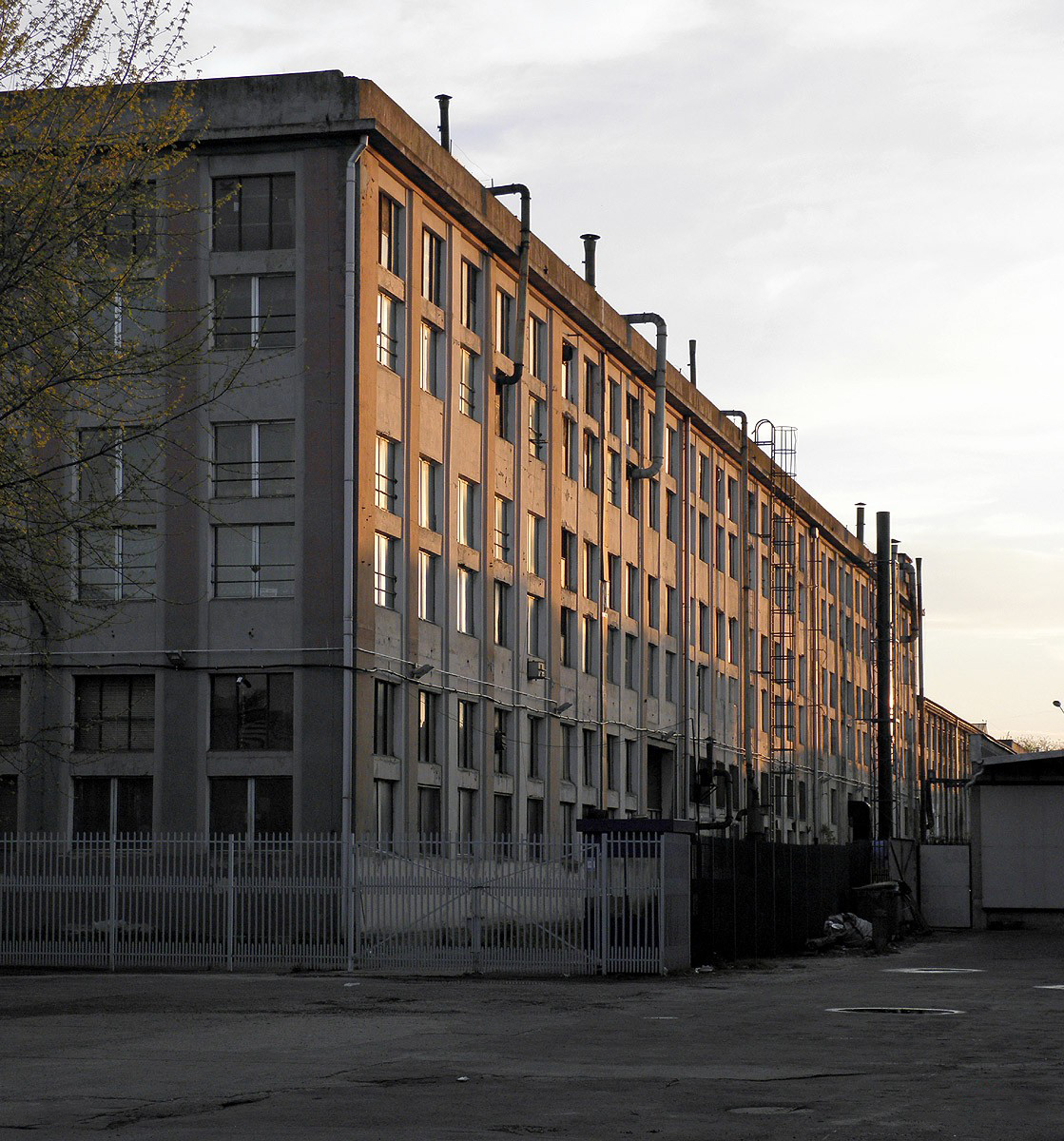 Arms Factory; Radom, Poland - old building (1930s)